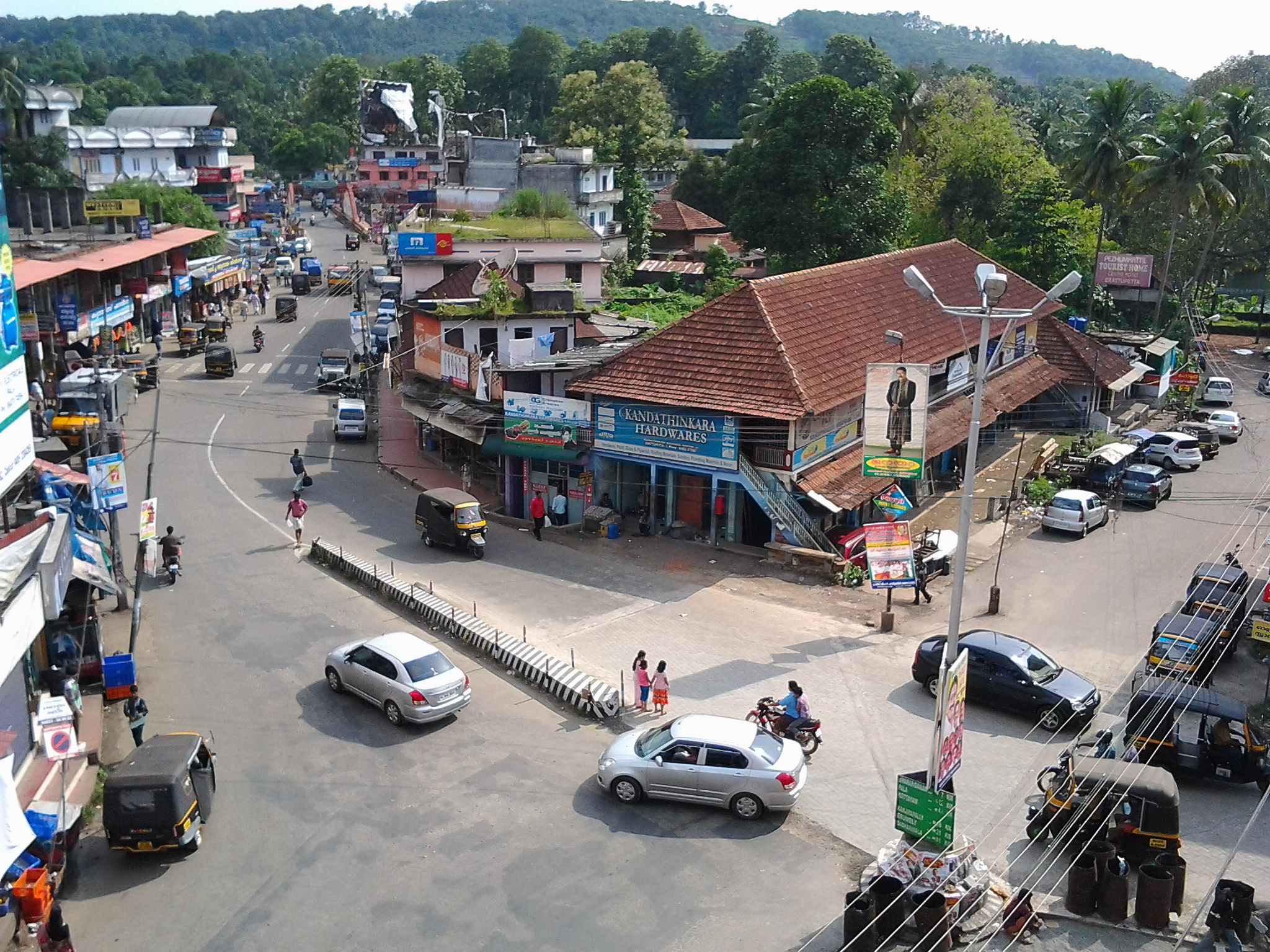 Town Junction